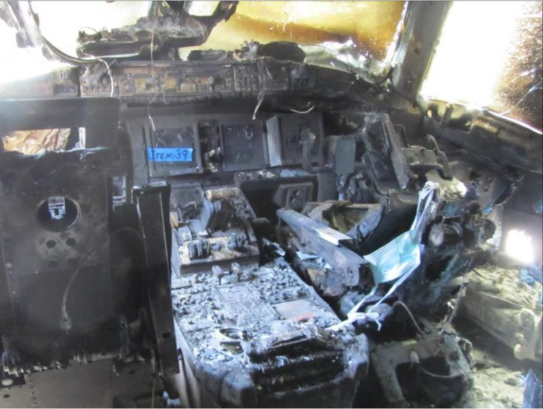 Cockpit of SU-GBP, which was operating EgyptAir Flight 667, following a fire.